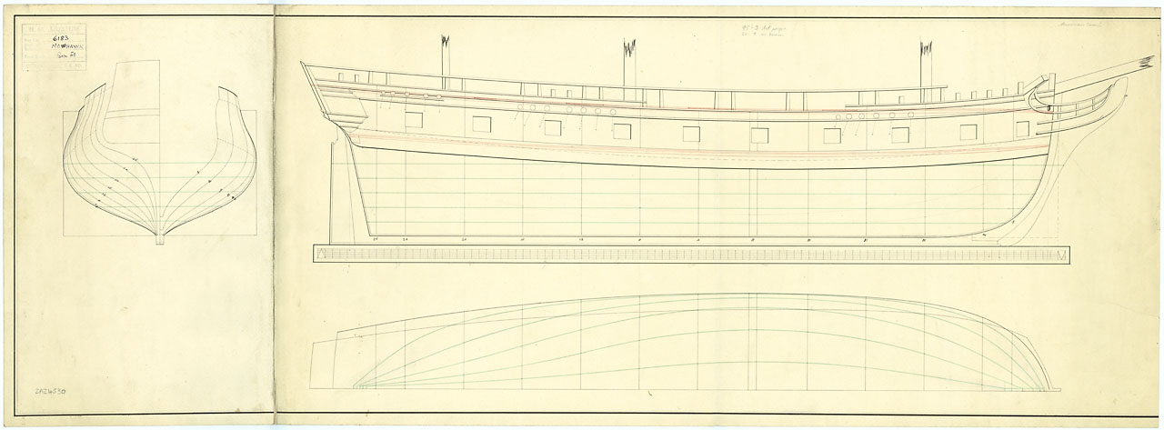 Possibly Mohawk (1782) Scale: 1:48. Plan showing the body plan, sheer lines, and longitudinal half-breadth for a 95 ft Ship Sloop, possibly the Mohawk (1782), a 14 gun Sloop, built in America as a privateer. The body plan shows a 'v' shape usually associated with a ship designed for speed. The ship arrived at Deptford from the West Indies on 8 August 1783 and was sold on 25 September 1783 having paid off. MOHAWK 1782?